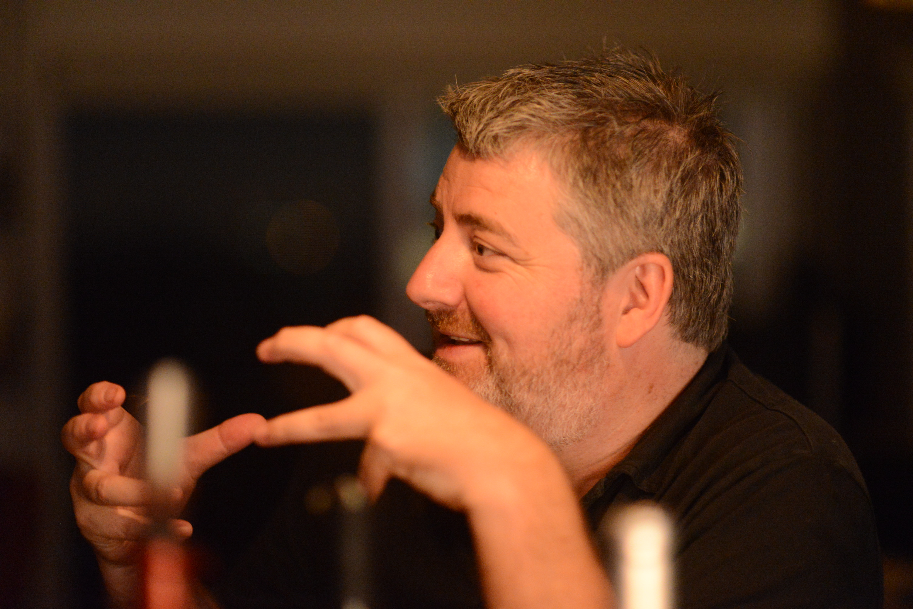 Photo of composer John McCarthy